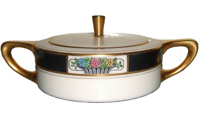 Lenox black banded sugar bowl